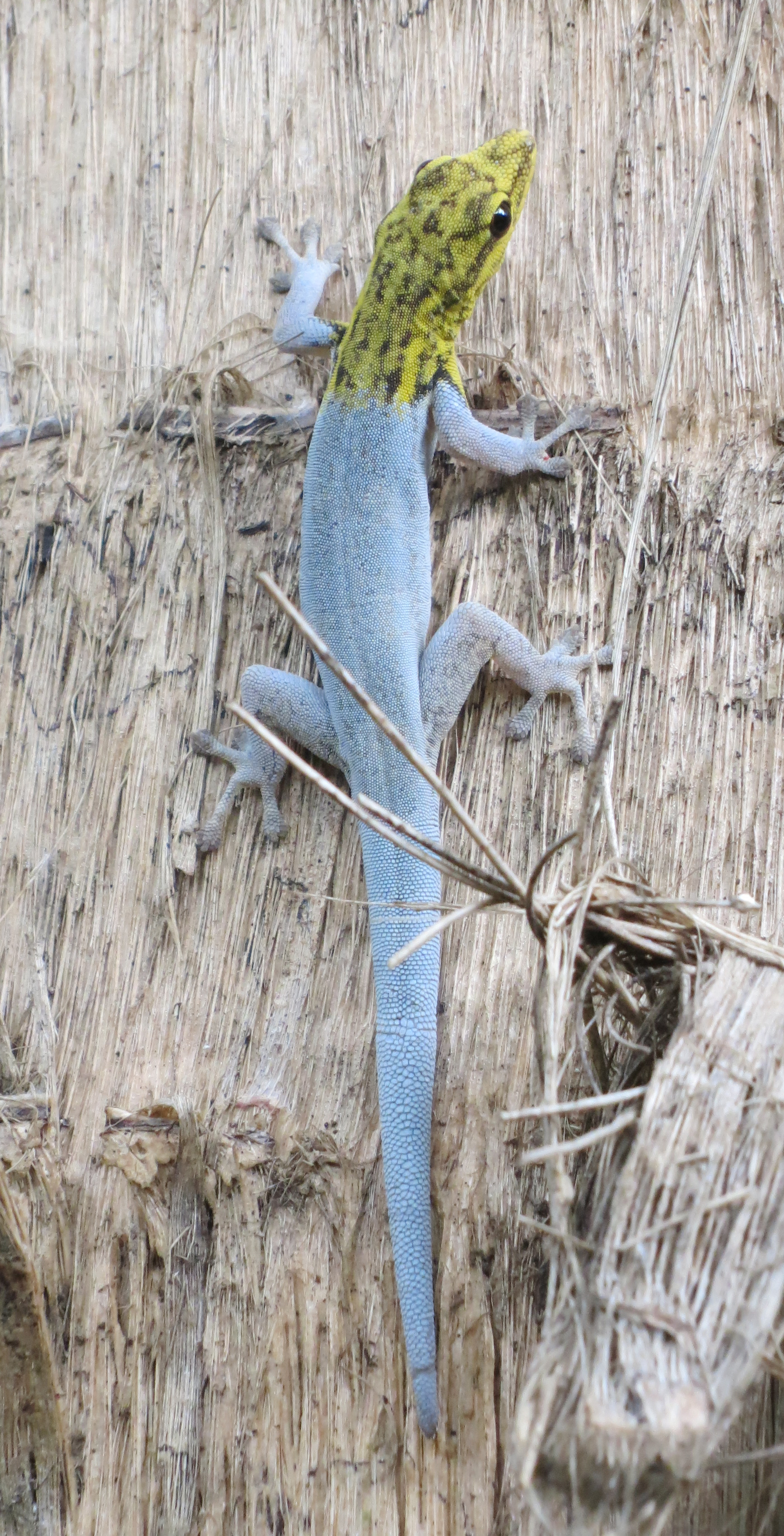 Dwarf Yellow-Headed Gecko (Lygodactylus luteopicturatus) in Dar es Salaam, Tanzania.